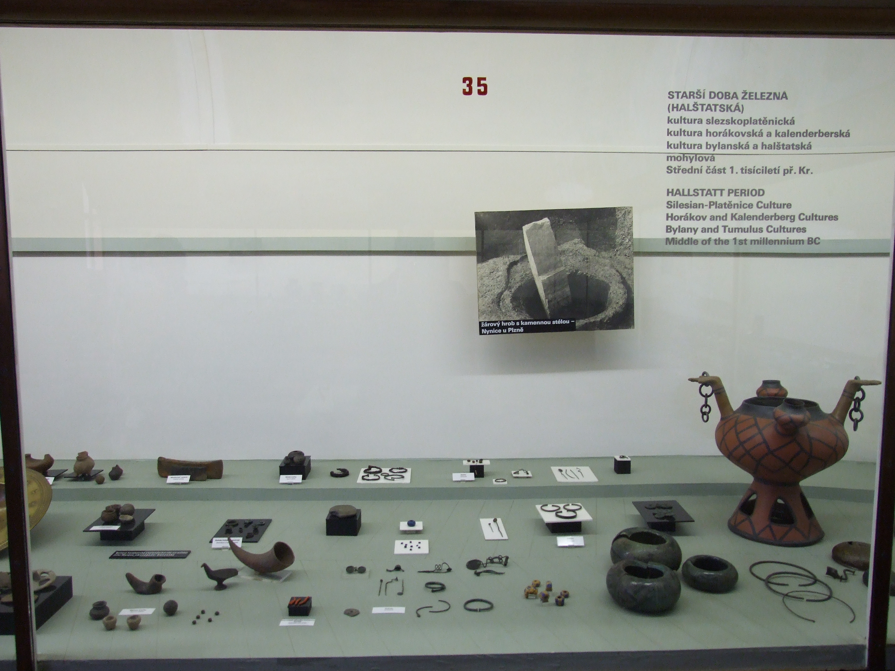 Prehistoric Times of Bohemia, Moravia and Slovakia, National Museum in Prague